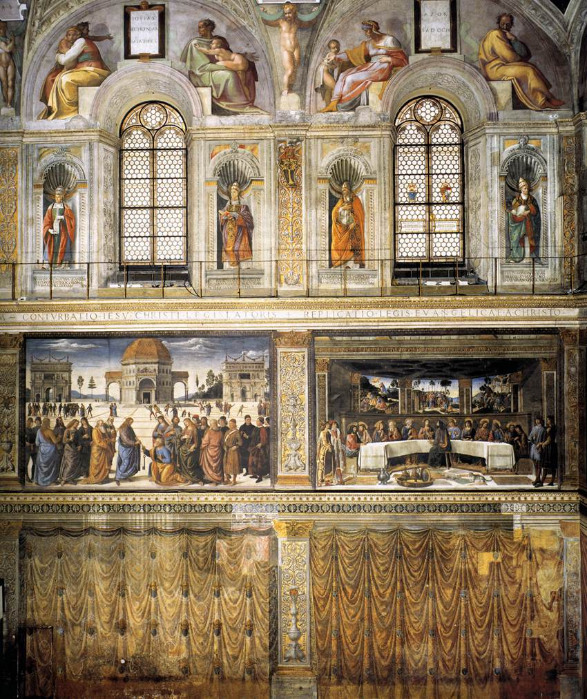 Detail of the wall decoration Fresco Cappella Sistina, Vatican